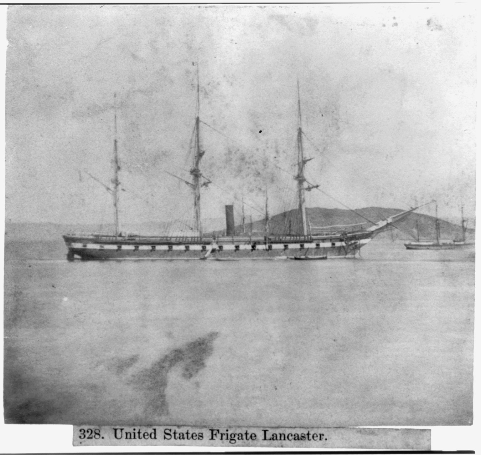 Title: United States Frigate LANCASTER Abstract/medium: 1 photographic print : half stereograph, albumen.